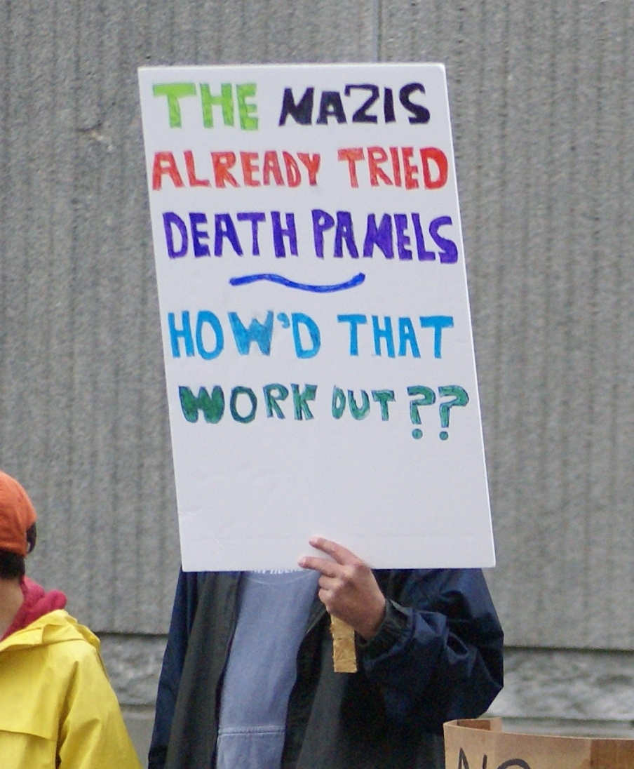 Protest sign: The Nazis already tried death panels. How'd that work out?